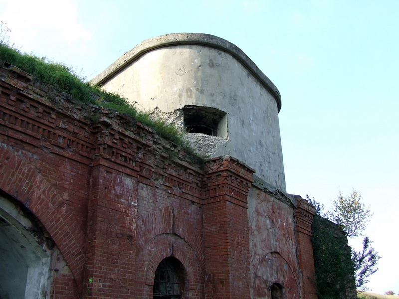 Kaunas Fortress, Lithuania.